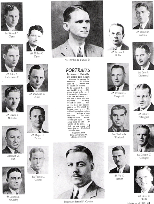 Collage of FBI special agents from the "Dillinger Squad" in Chicago in 1934, including SA James J. Metcalfe, who later achieved fame as a syndicated poet.